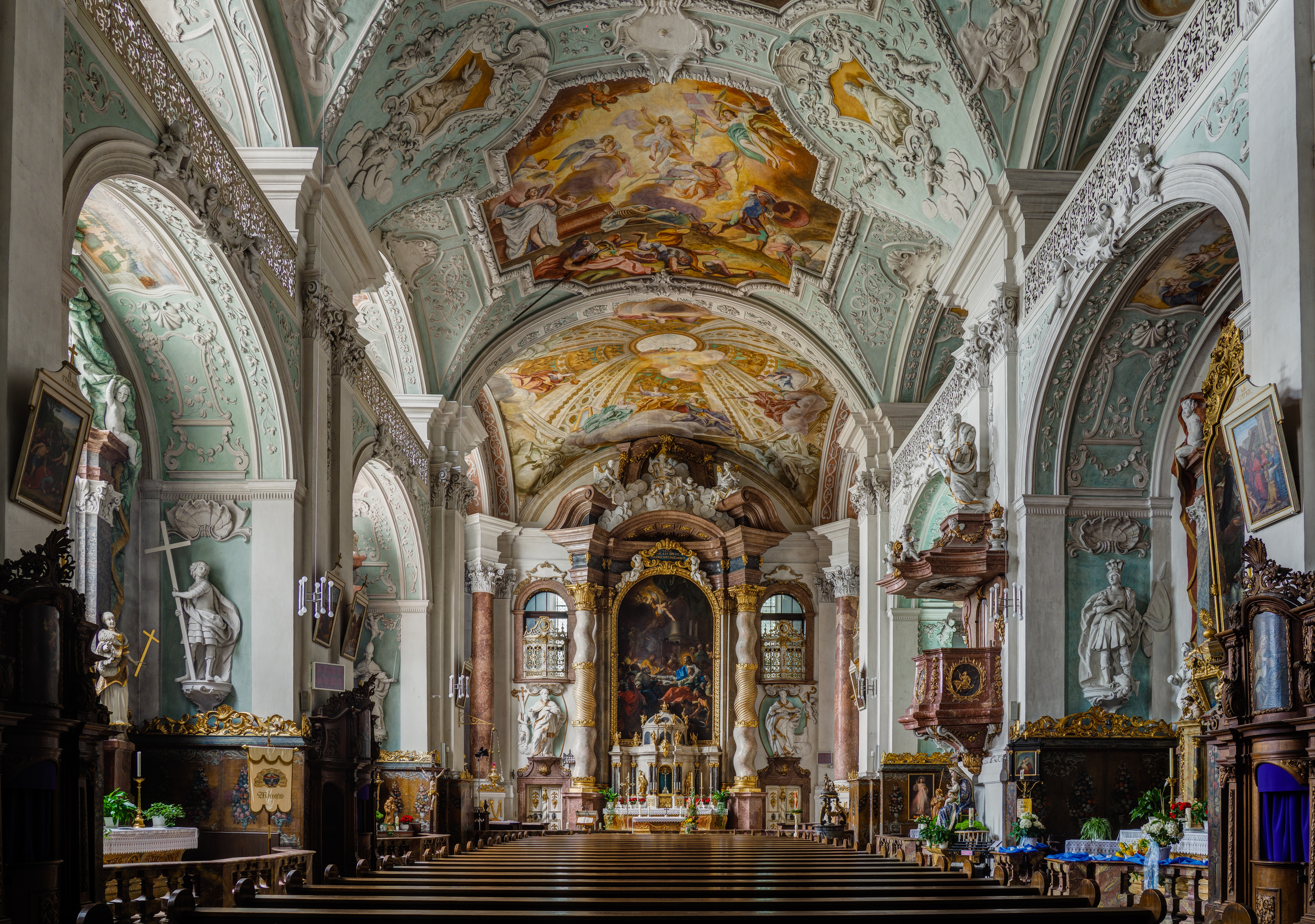 Interior of the former abbey church St. Johannes Evangelist in Michelfeld in the Upper Palatinate